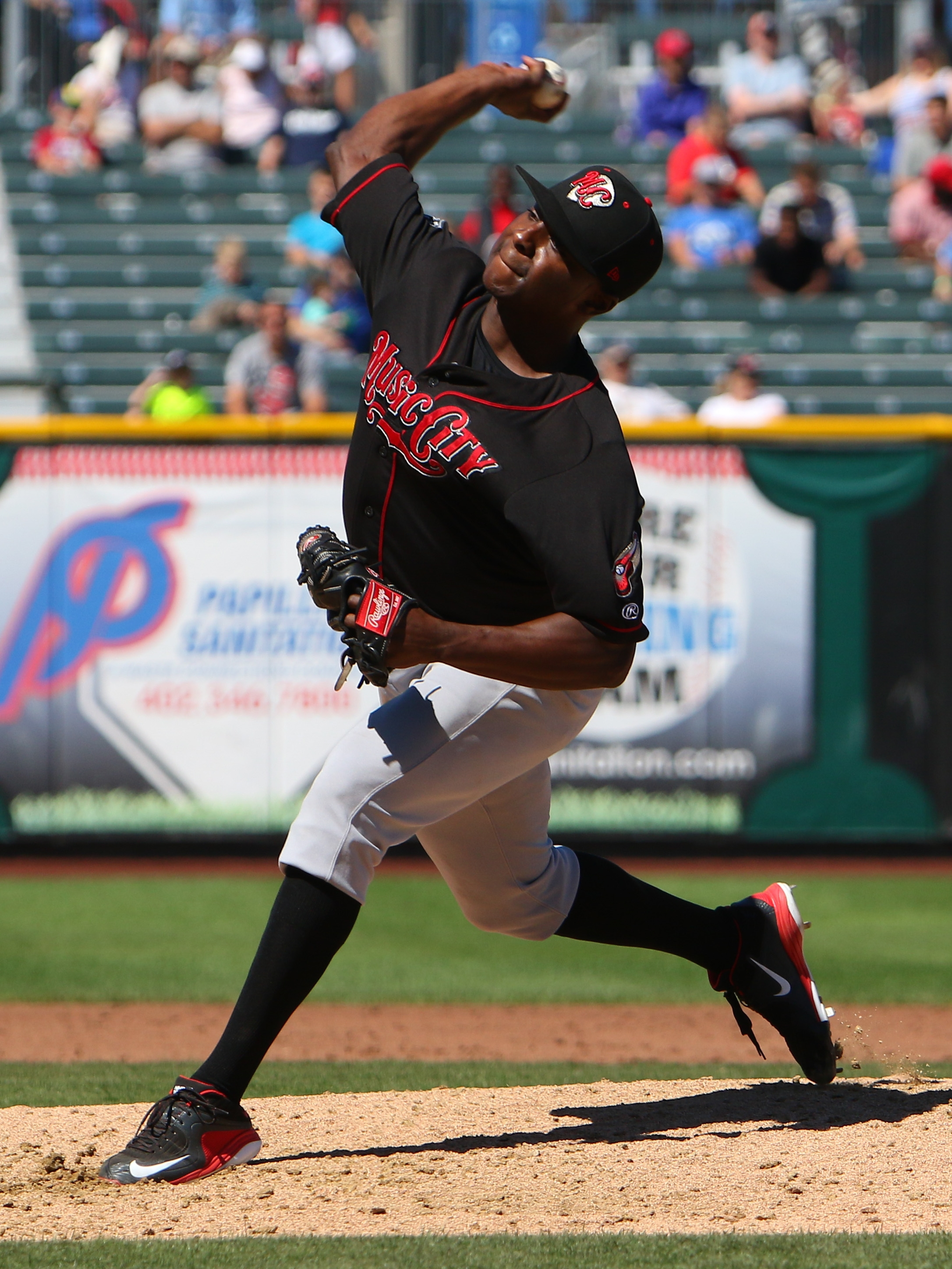 Jharel Cotton, Nashville Sounds pitcher USAGE INSTRUCTIONS: You are welcome to share or publish to your own site or social media account, but you MUST credit me, Minda Haas Kuhlmann, or by my Twitter handle (@minda33) or Instagram (minda.haas).